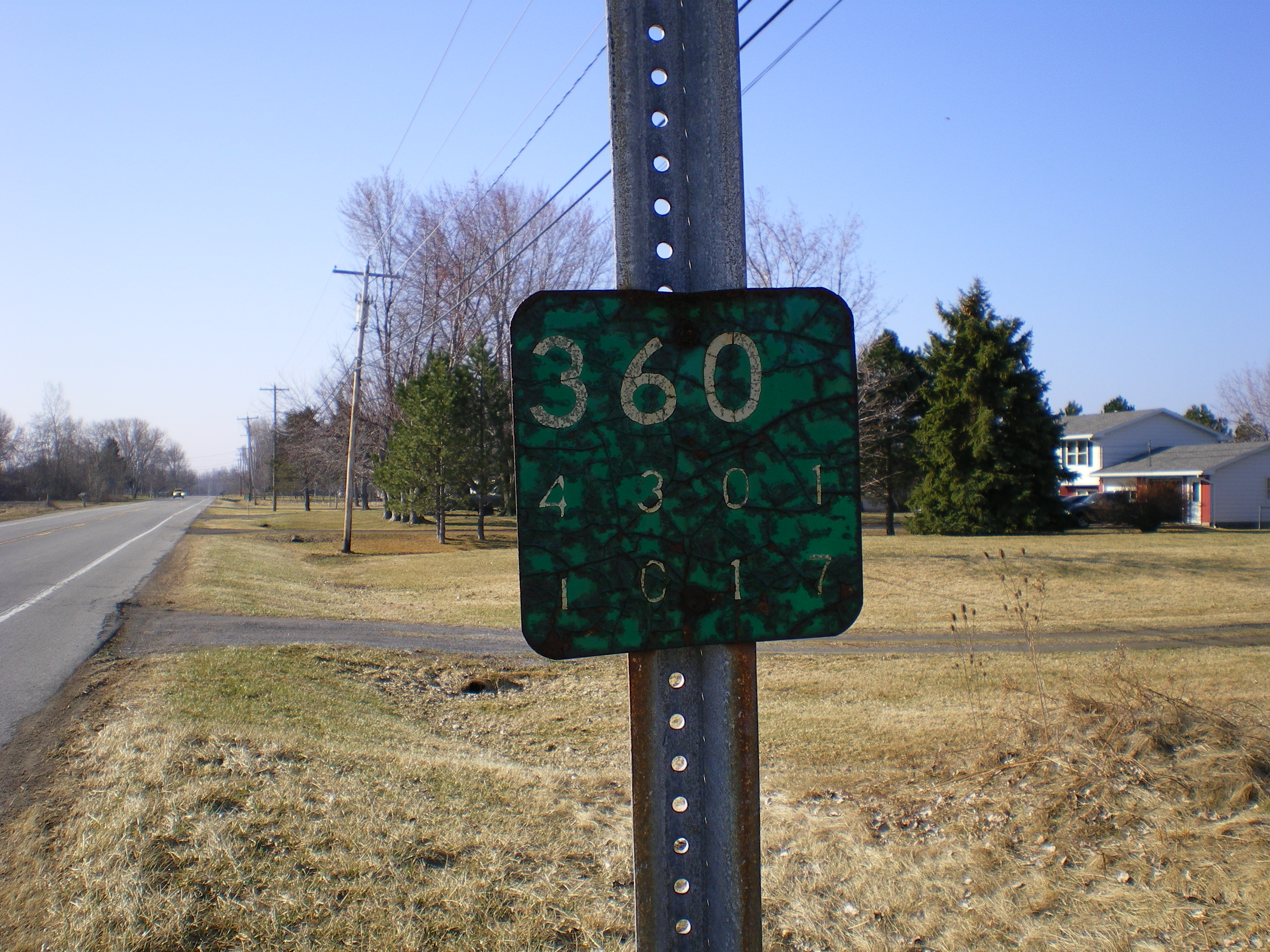 An old, cracked reference marker on New York State Route 360 in Hamlin. This marker is on Redman Road heading eastbound on NY 360.